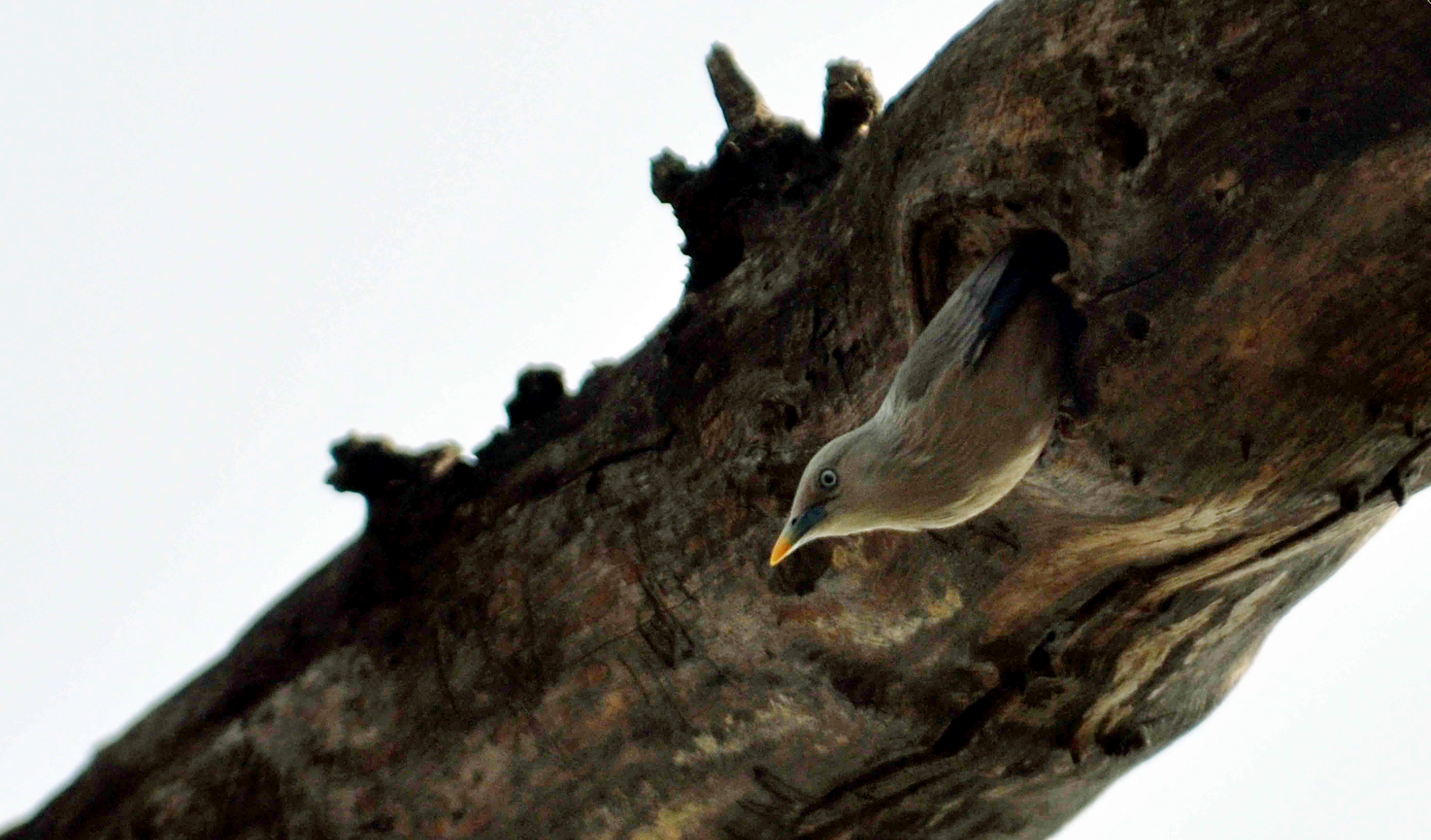 A Brahiminy starley leaving its nest.